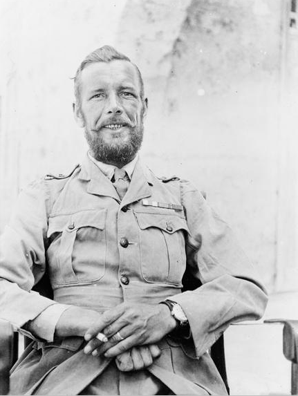 Self portrait photograph by Captain Herbert Garland of the British Army in Arabia (with TE Lawrence). Taken at Jidda or Yenbo in December 1917.